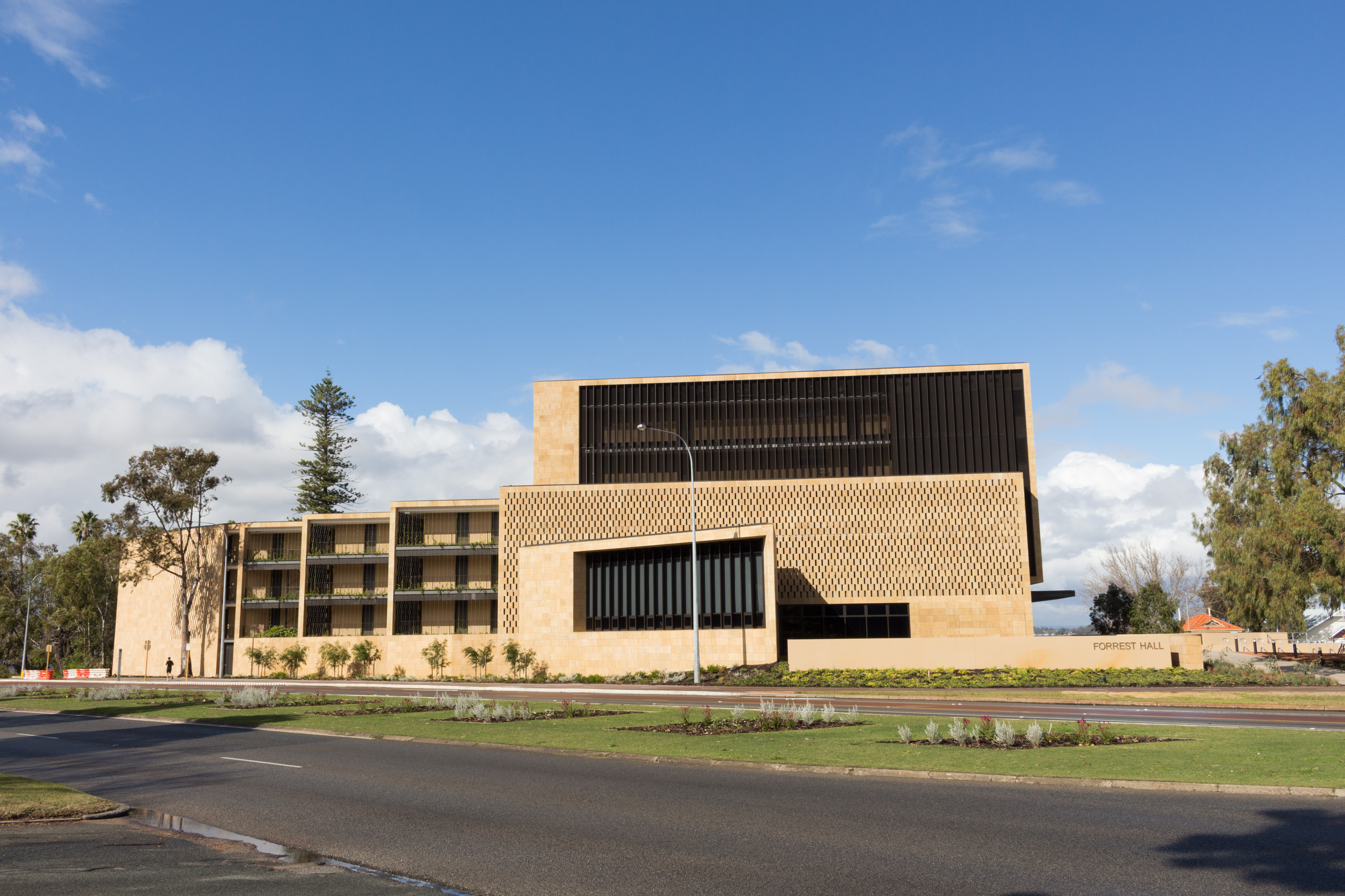 Forrest Hall